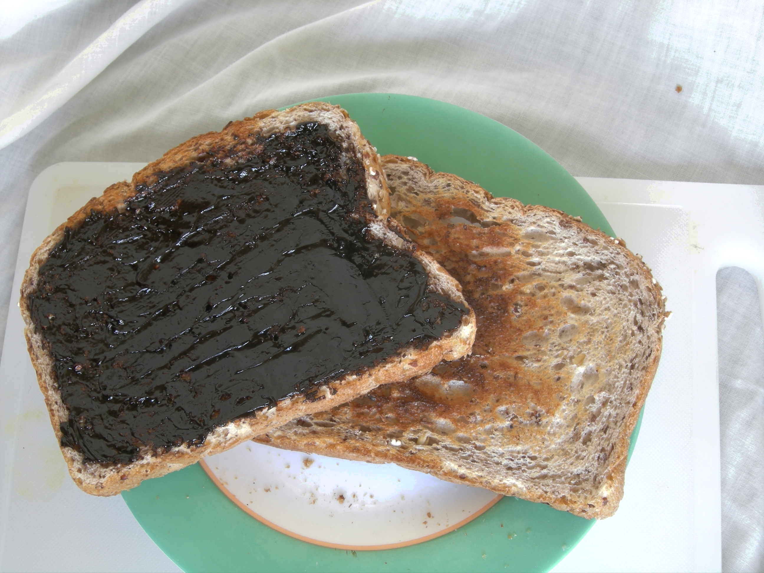 A serving suggestion representing a common serving method in New Zealand for New Zealand Marmite. However, new people to Marmite are unlikely to desire it as thick or as covering.